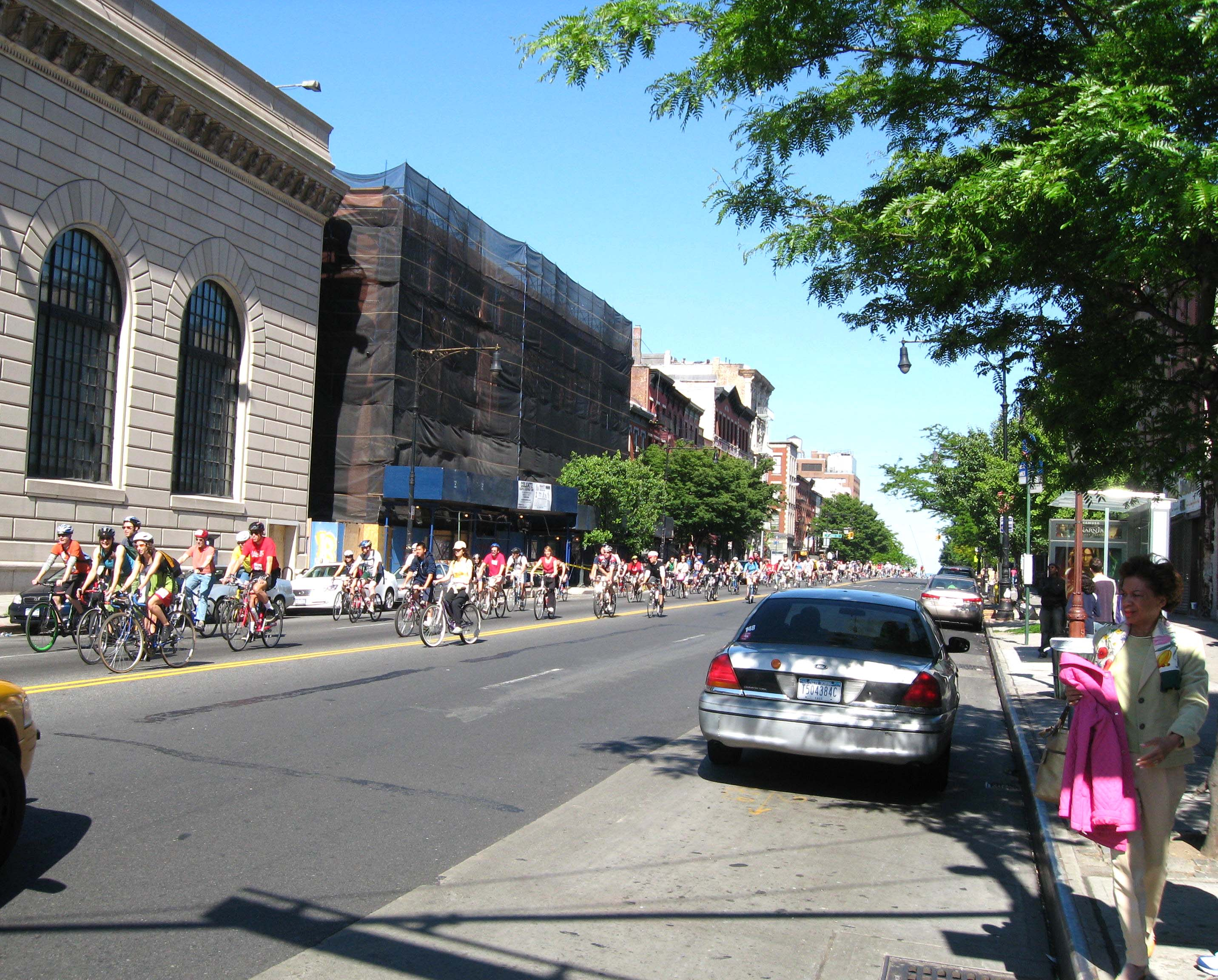 Looking west up Cobble Hill along Atlantic Avenue (New York City) from Court Street on a sunny morning during Tour de Brooklyn. ZIP 11201.